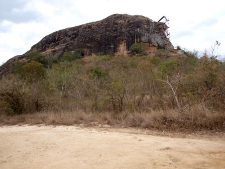 Sight located in Kitui County, Kenya